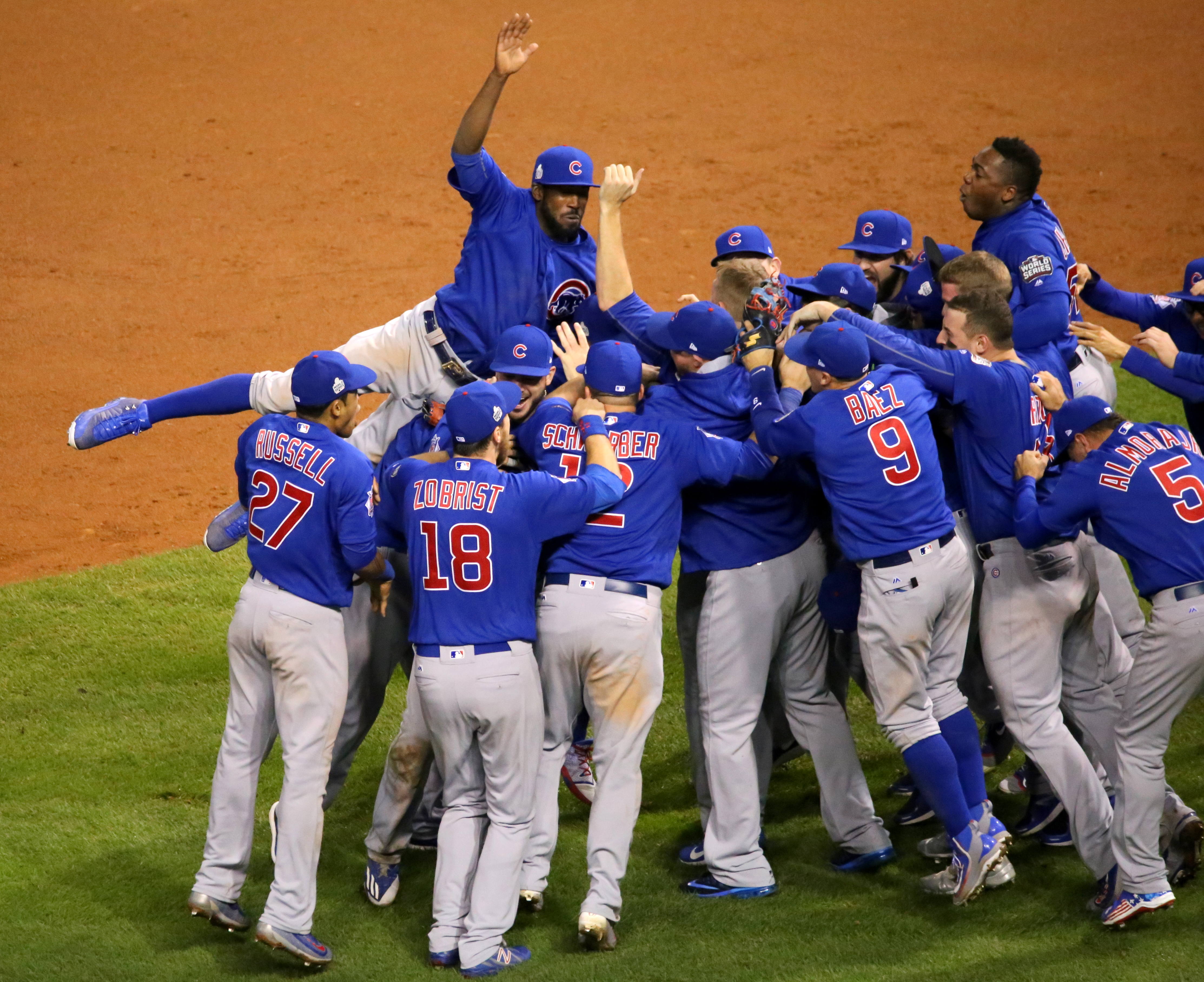 The Cubs celebrate after winning the 2016 World Series.